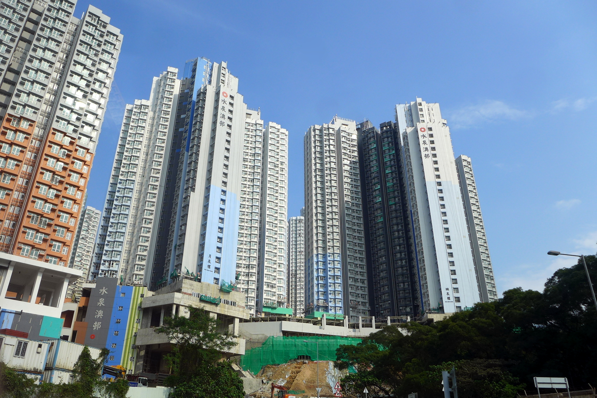 Shui Chuen O Estate Phase 2